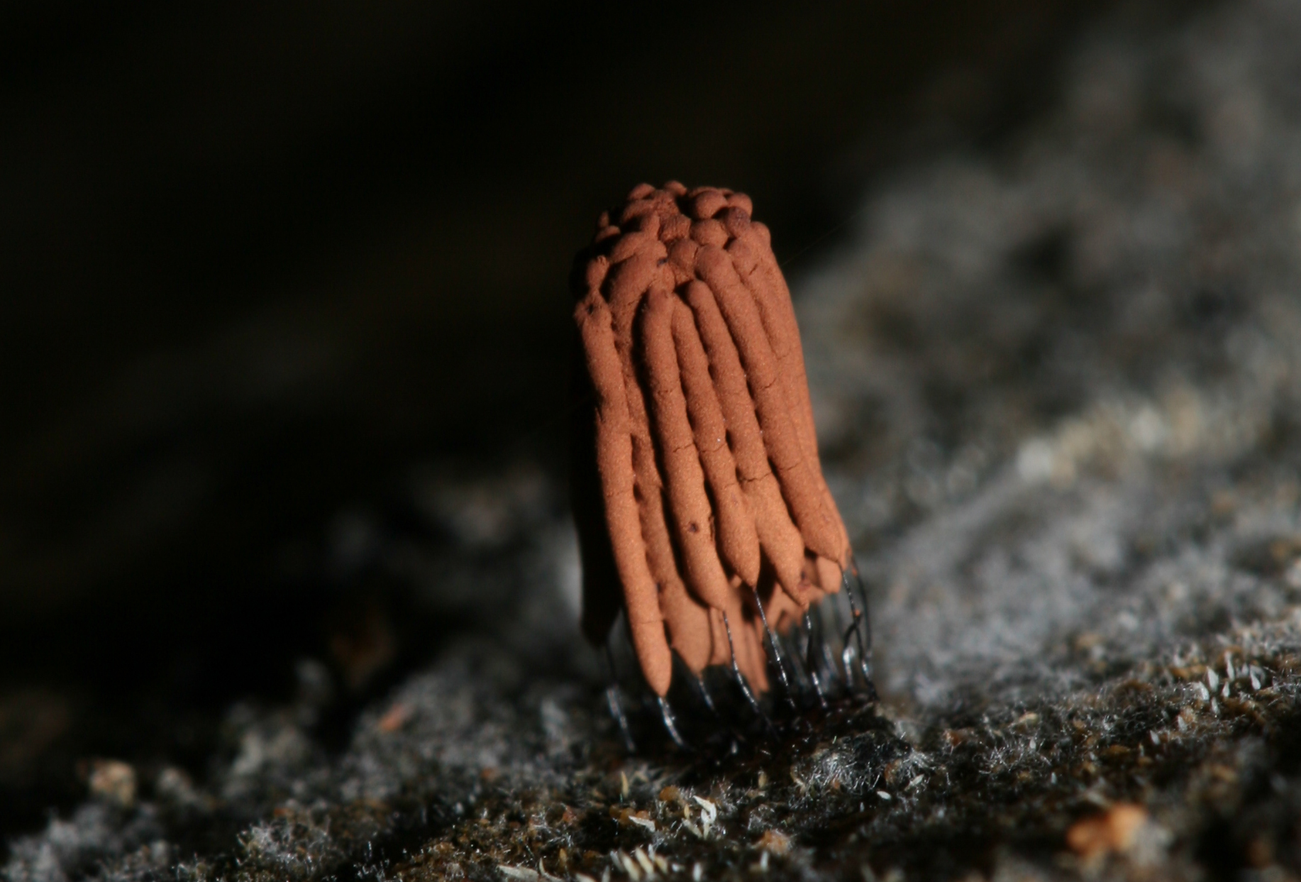 More slime molds. I love photographing these. MUST RESIST! Must not buy Canon 65mm Macro lens! Must resist!